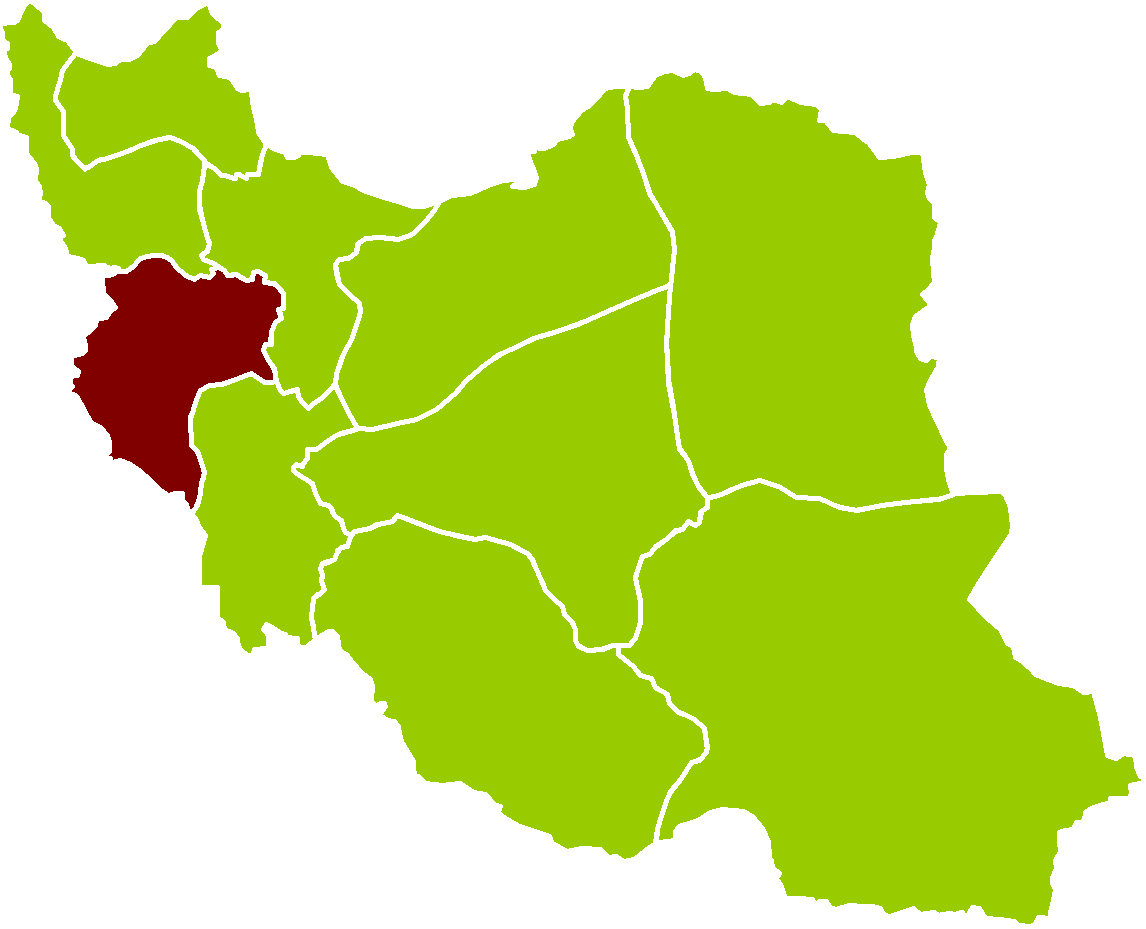 Fifth province of Iran